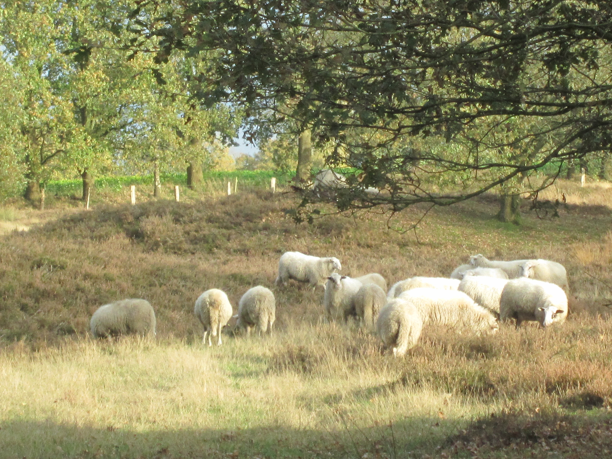 Nature Reserve "Hügelgräberheide bei Groß und Klein Berßen"